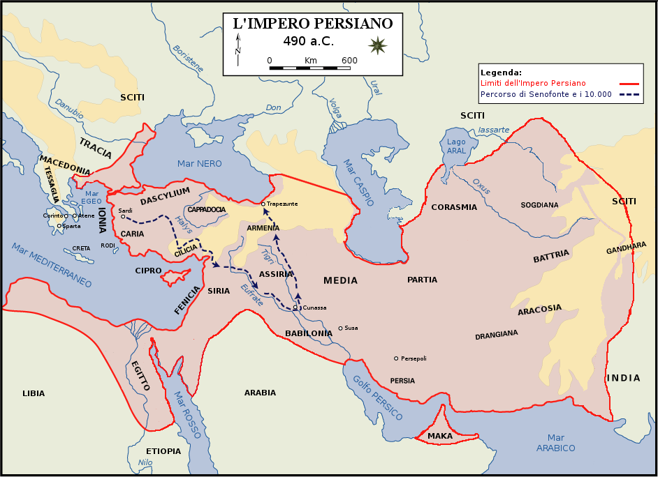 Persian Empire, 490 BC, showing route of Cyrus the Younger, Xenophon, and the 10,000. At the time of Xenophon, The Persian Empire had already lost its foothold in European Thrace, and many Greek cities on the coast of Asia Minor were independent of Persian rule.